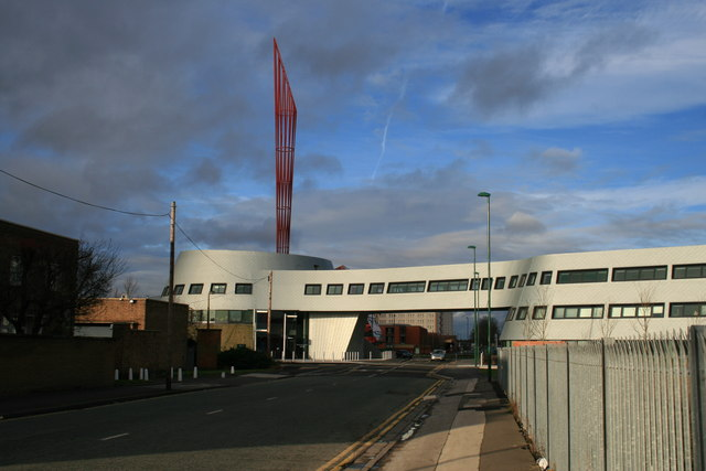 Sir Colin Campbell building, near to Lenton, Nottingham, Great Britain. Clad in Zinc Tiles by Rheinzink, this is part of Nottingham University Jubilee campus on Triumph Road